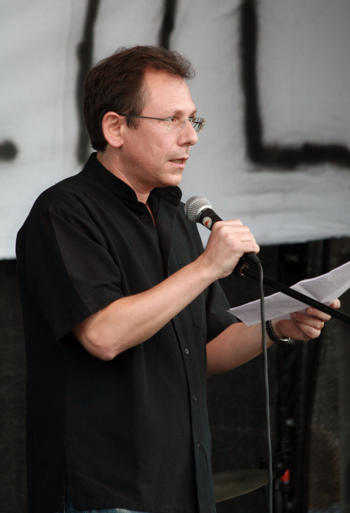 Doron Rabinovici